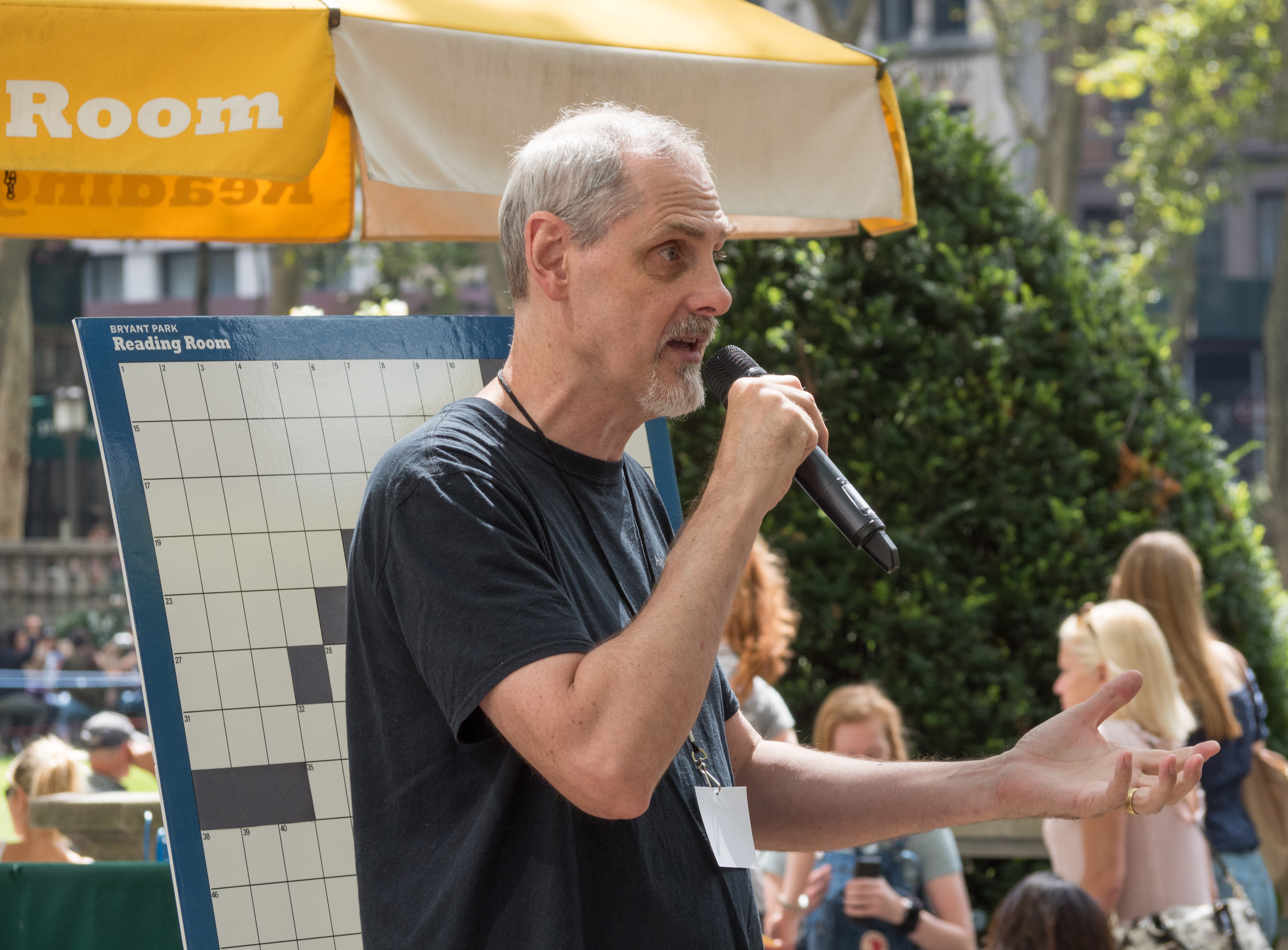 John Chaneski at the Bryant Park Coffee and Crosswords competition